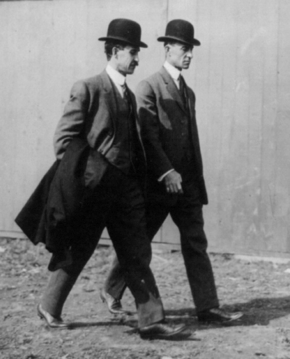 The Wright brothers at the International Aviation Tournament, Belmont Park, Long Island, N.Y., Oct. 1910